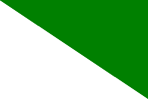 Flag of Siberia